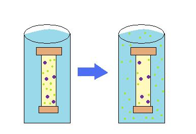 Dialysis diagram